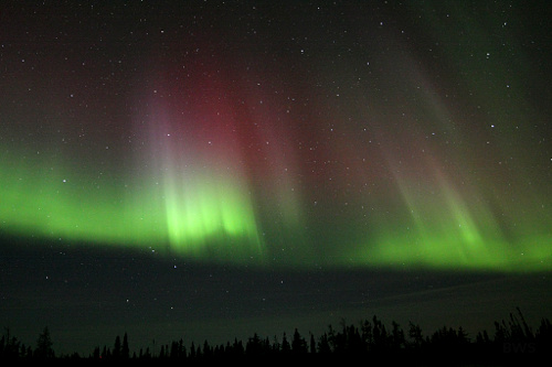 Aurora Borealis, Gillam, Manitoba, Canada